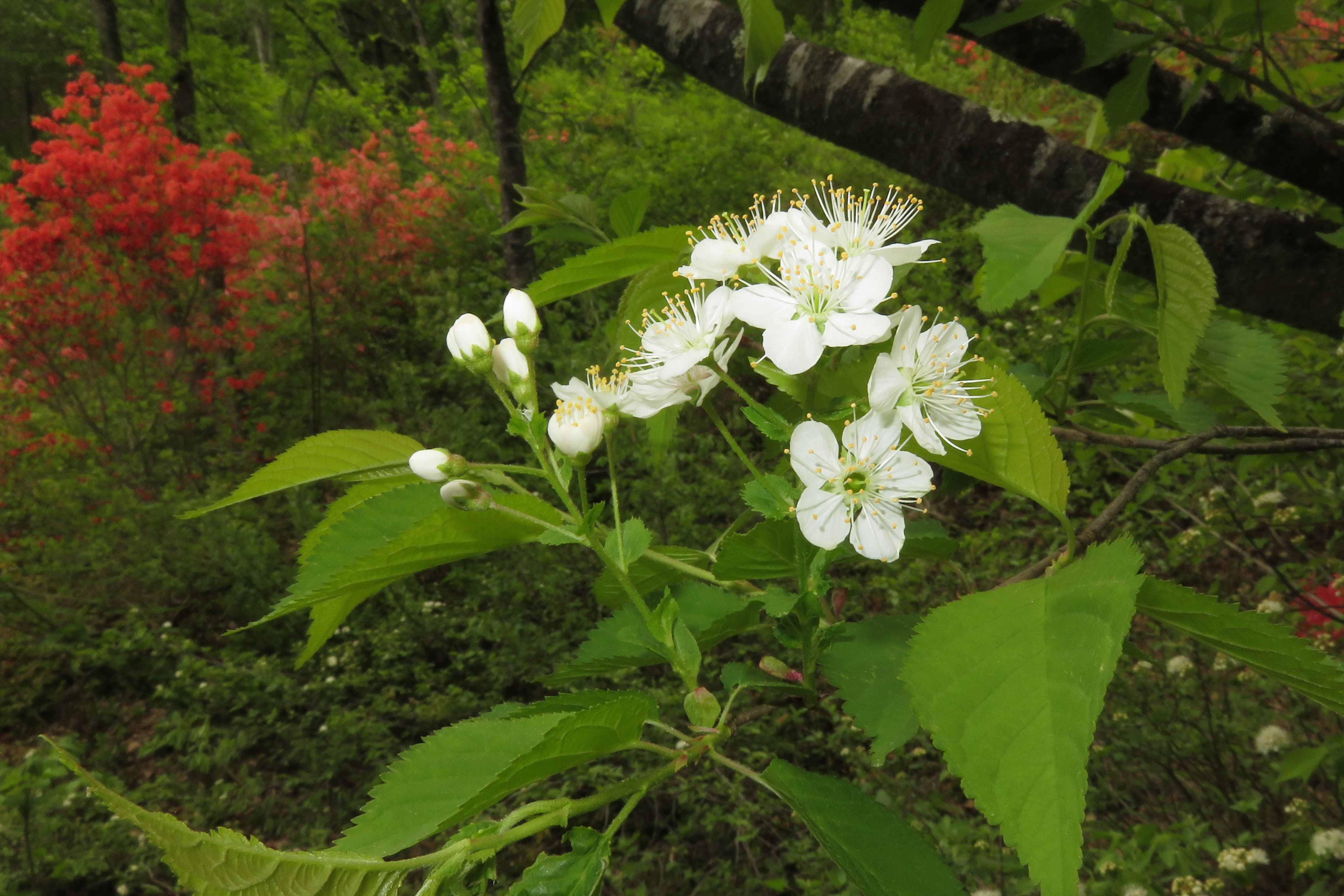 Prunus maximowiczii, Aizu area, Fukushima pref., Japan